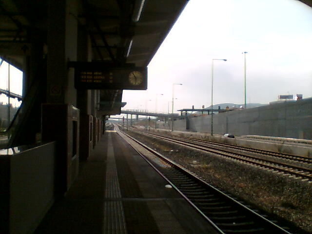 Proastiakos (Athens suburban rail), Ano Liosia station, facing west towards the Thriasio plain. The train is a tad late.